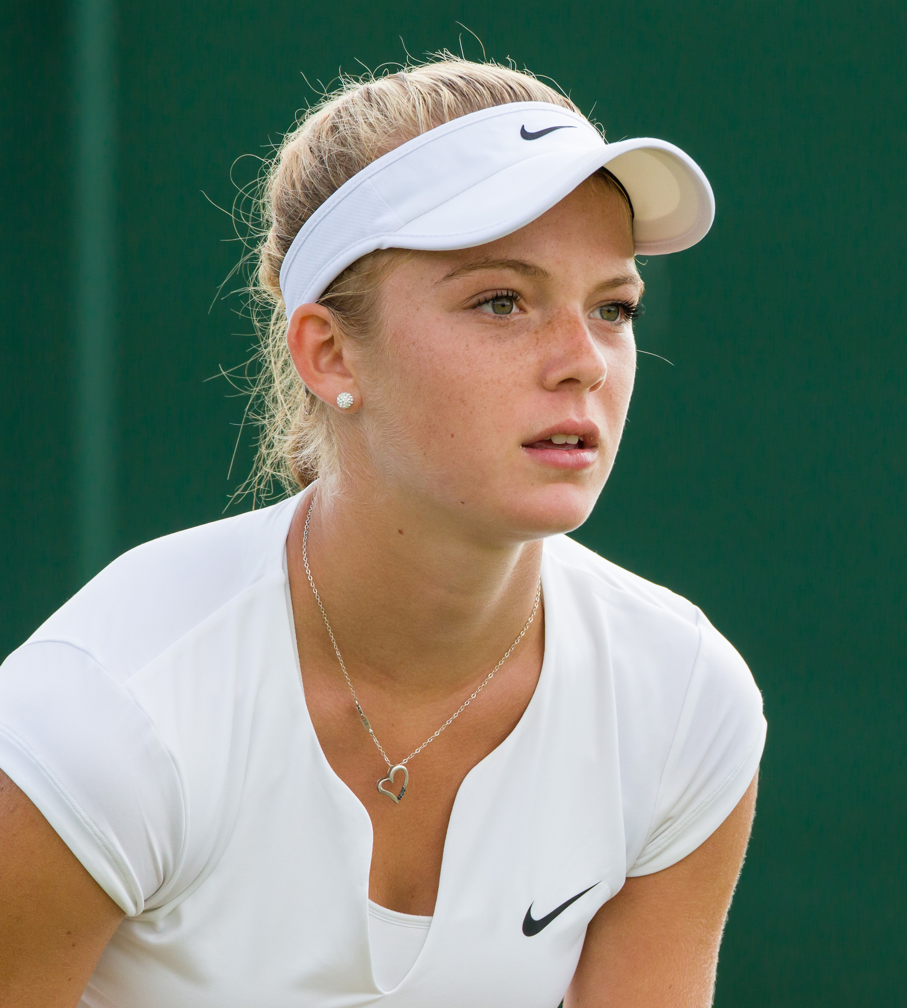 Katie Swan competing in the first round of the 2015 Wimbledon Qualifying Tournament at the Bank of England Sports Grounds in Roehampton, England. The winners of three rounds of competition qualify for the main draw of Wimbledon the following week.